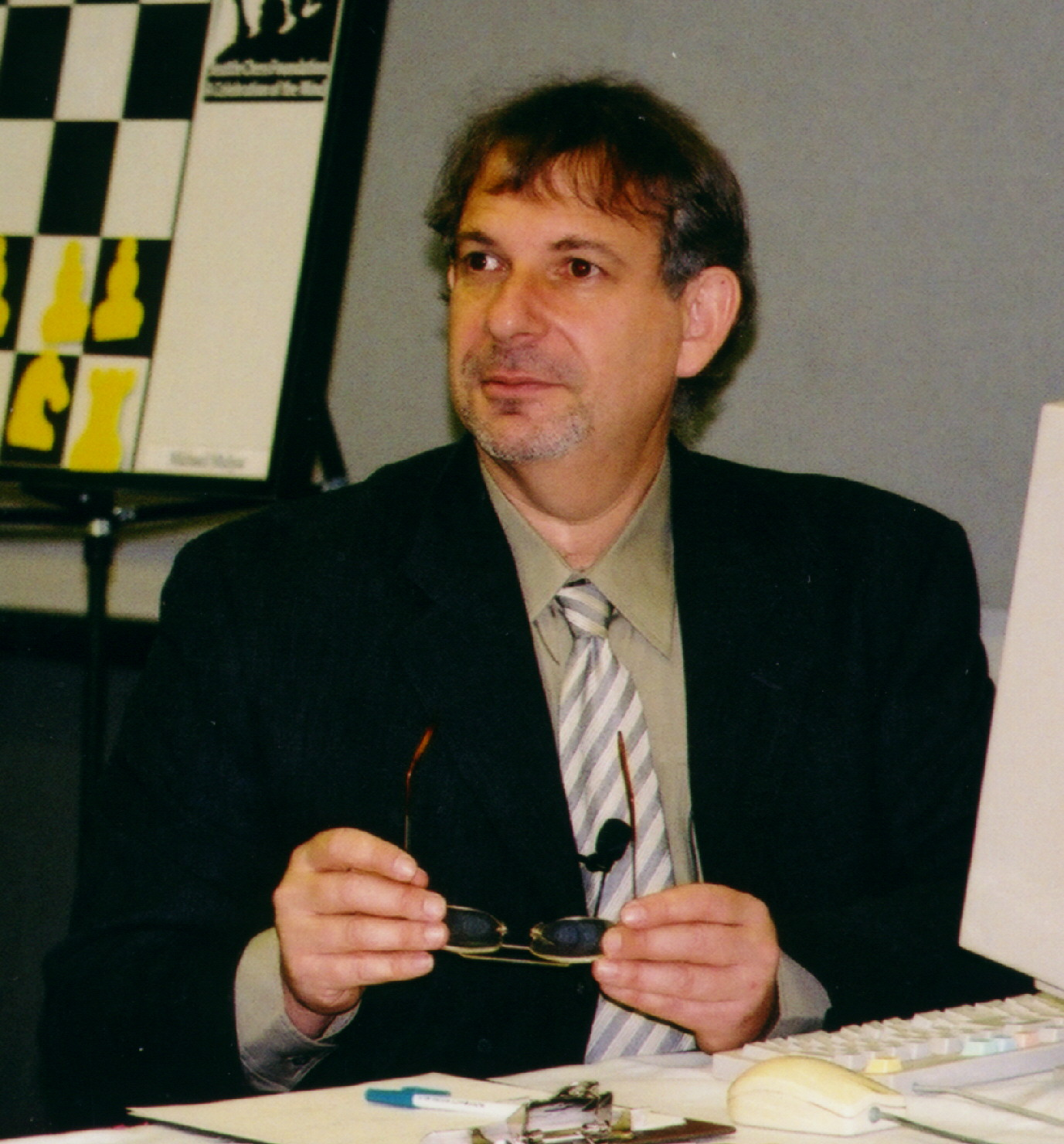 Jeremy Silman, in the commentary room at the 2002 U.S. Chess Championships.